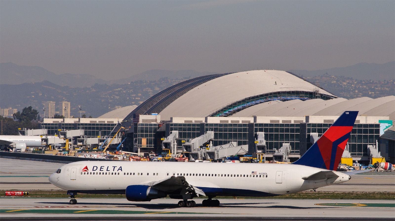 Some planespotting for the very first weekend of 2013 - in anticipation of seeing the new United 787 services to/from Tokyo. (And I was far from alone - plenty of hardcore planespotters, all of male middle-aged persuasion except for yours truly.) Delta 1706 arrives from Detroit. This 1988-build 767-300 is not an ER. N128DL, Boeing 767-300